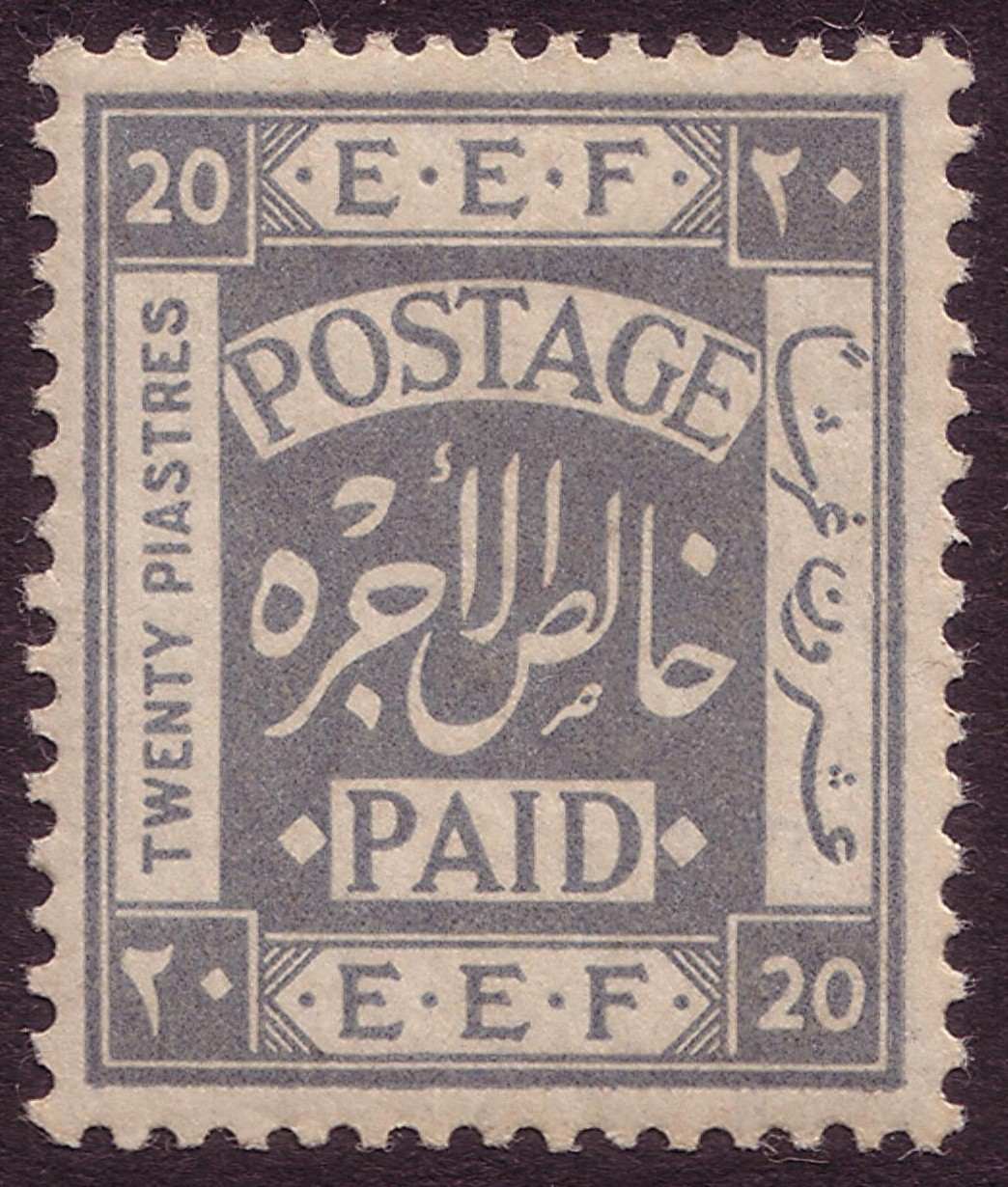 20 Piaster, issued 1918 by the British military adminstration in Palestine and Transjordan